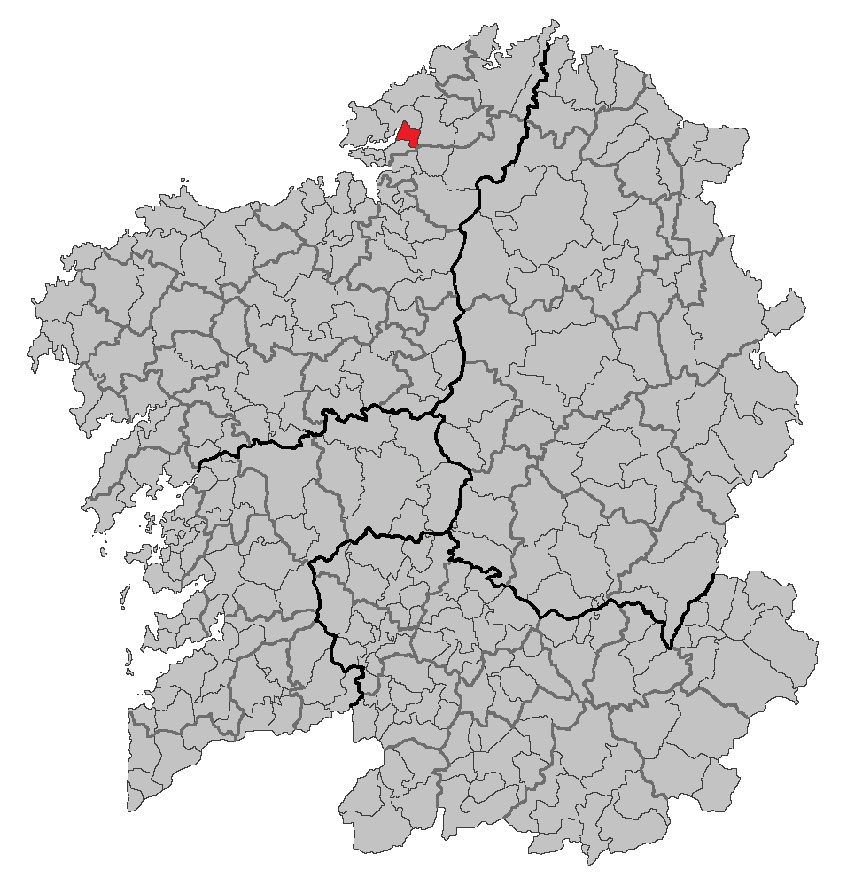 Location map of Neda, A Coruña, Galicia